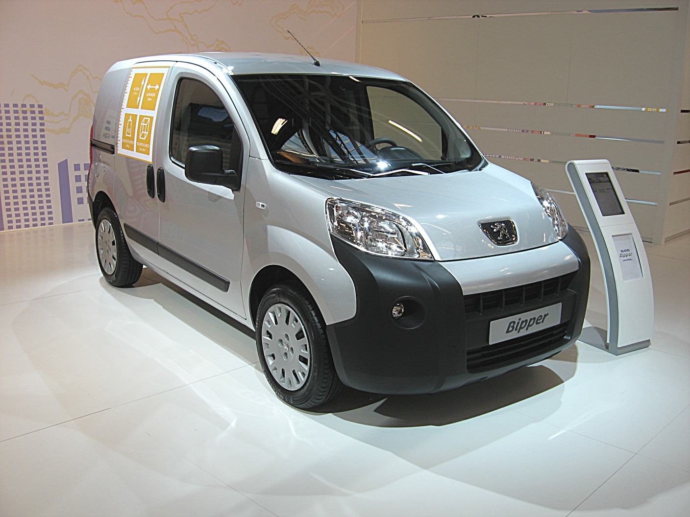 Subject:Peugeot Bipper Author:Luc106 Date:December 13th, 2007 Event:Motor Show Bologna 2007 Place/Country: Bologna, Italy I release all rights in the public domain.